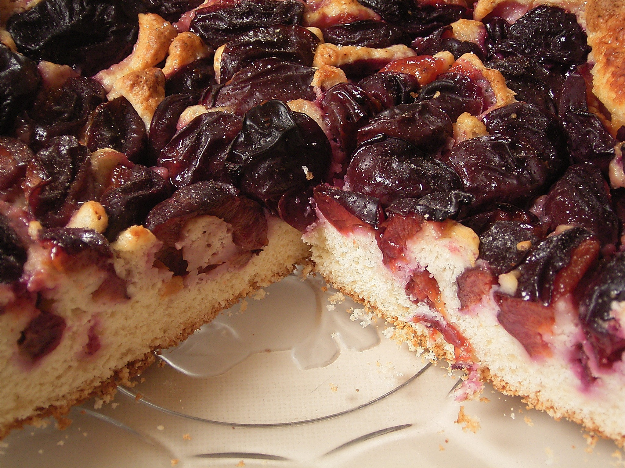 Another plum cake